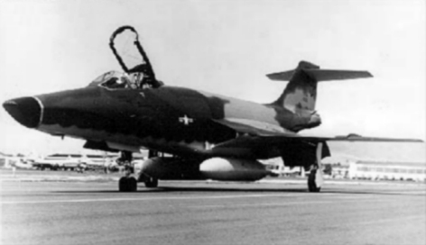 A U.S. Air Force McDonnell RF-101C-55-MC Voodoo (s/n 56-0220), assigned to 15th Tactical Reconnaissance Squadron, 460th Tactical Reconnaissance Wing at Tan Son Nhut Air Base, South Vietnam. The aircraft was shot down by a SA-2 missile 16 km northwest of the city of Con Cuong, Nghe An Province, North Vietnam, on 7 March 1966 (loss coordinates: 19 05 00 N 104 46 00 E). The pilot, Major Jerdy A. Wright, was killed.